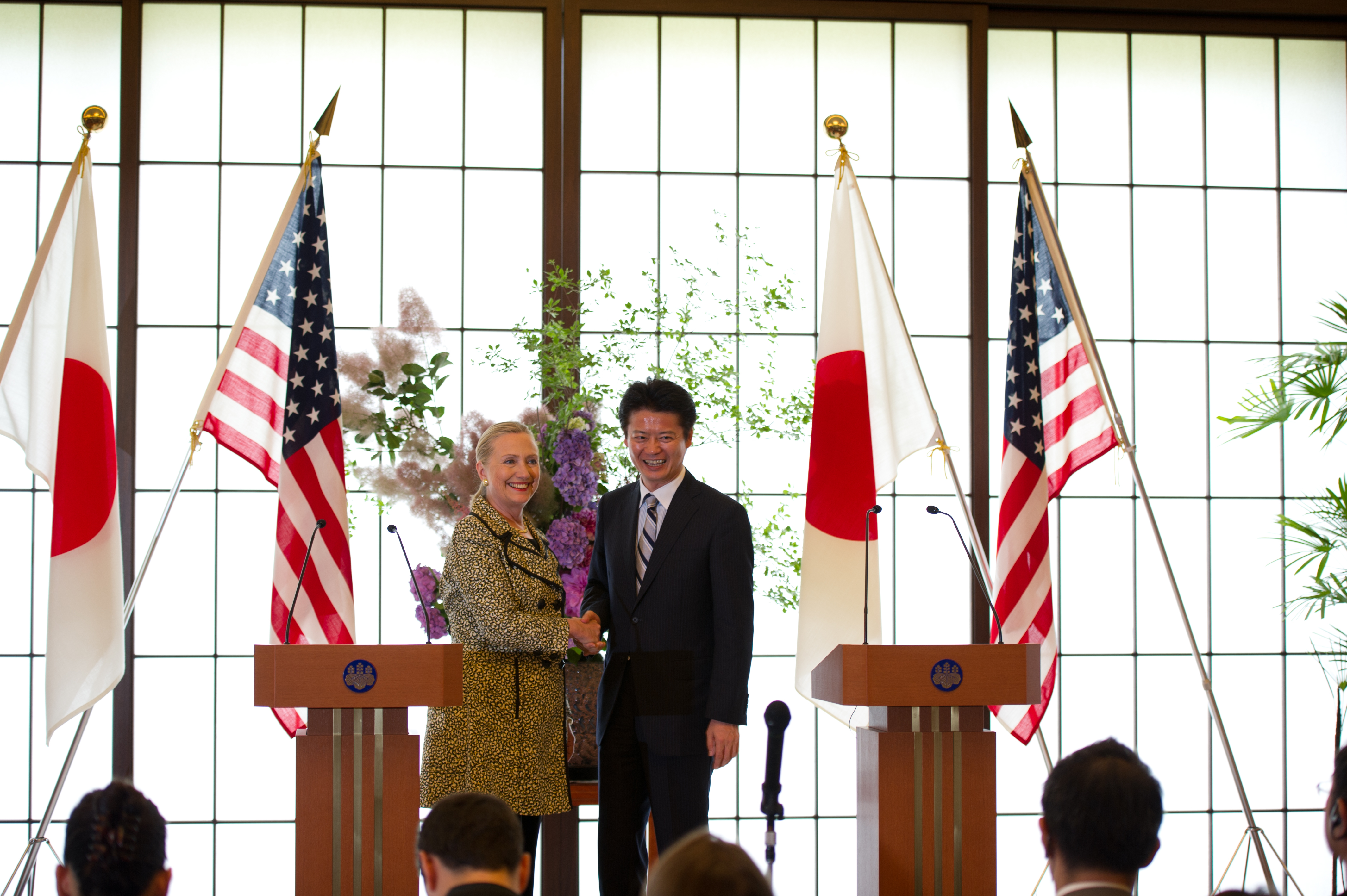 TOKYO, Japan (July 8, 2012) Secretary of State Hillary Clinton and Japan’s Foreign Minister Koichiro Gemba in Tokyo [State Department photo by William Ng]